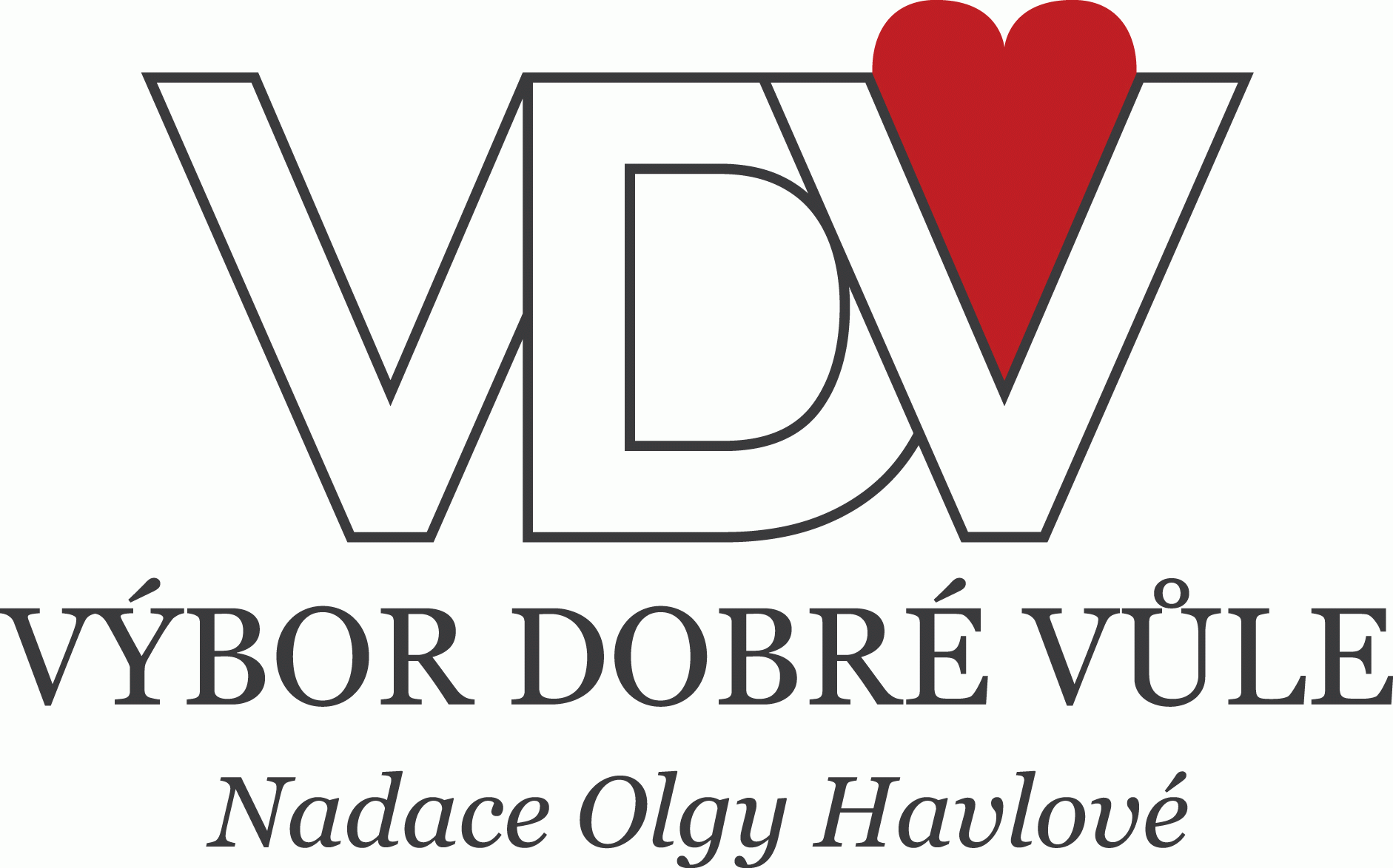 Logo of the Czech foundation "Committee of Good Will – Olga Havel Foundation". The foundation was grounded by Mrs. Olga Havlová at the beginning of 1990.